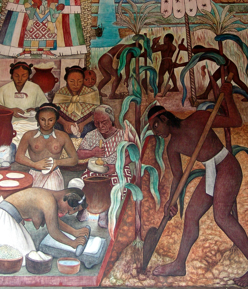 Maize.Fragment of mural by Diego Rivera in the Palacio Nacional (Mexico City)